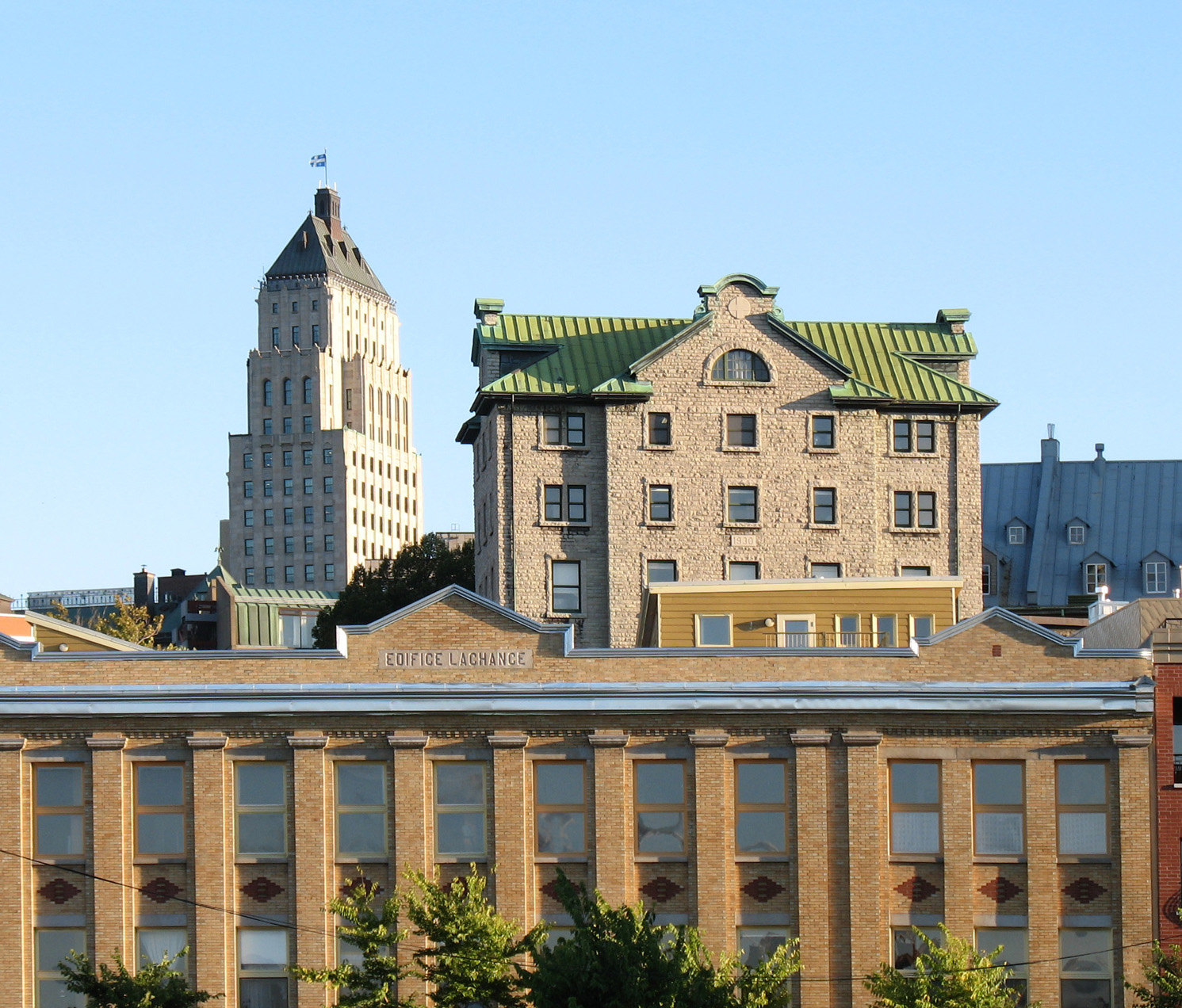 Quebec City, Lower Town, in the upper left, Édifice Price (Price Building), Quebec City, Canada